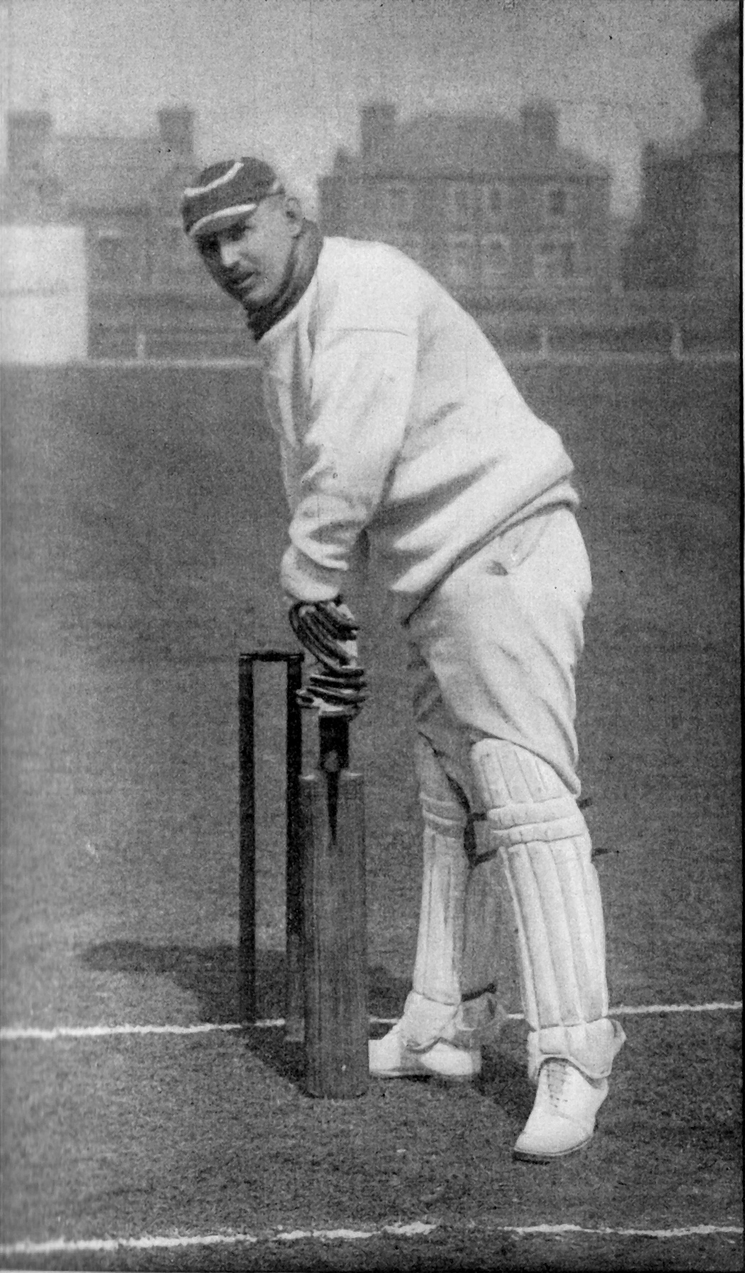 "Shrewsbury playing back."